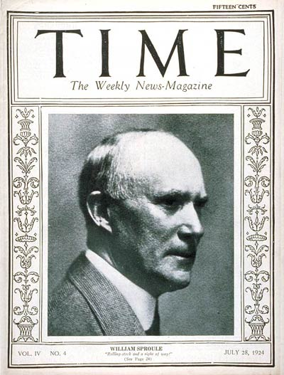 TIME Magazine Cover Featuring William Sproule (28 Jul 1924)